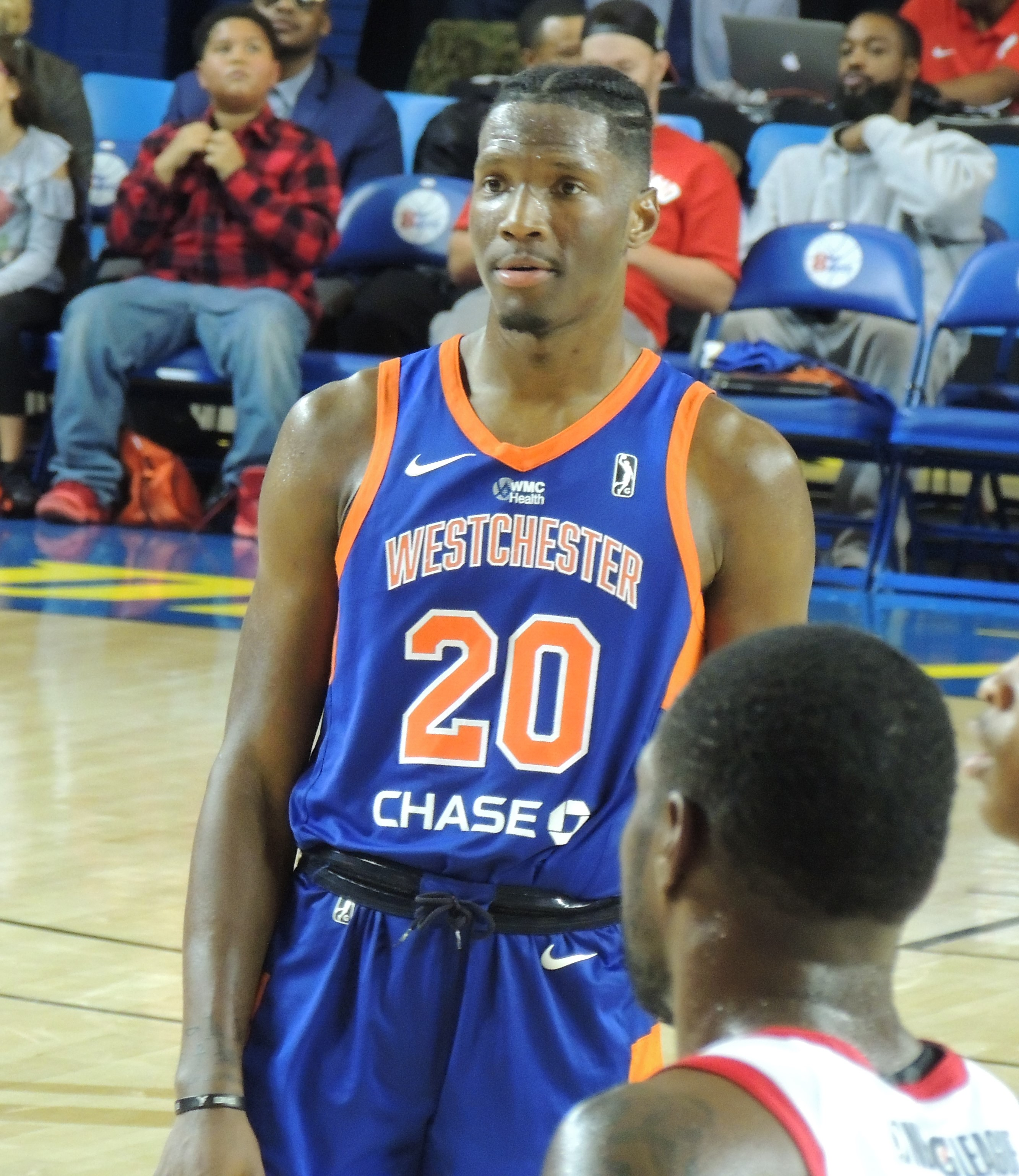 Westchester Knicks forward Nigel Hayes